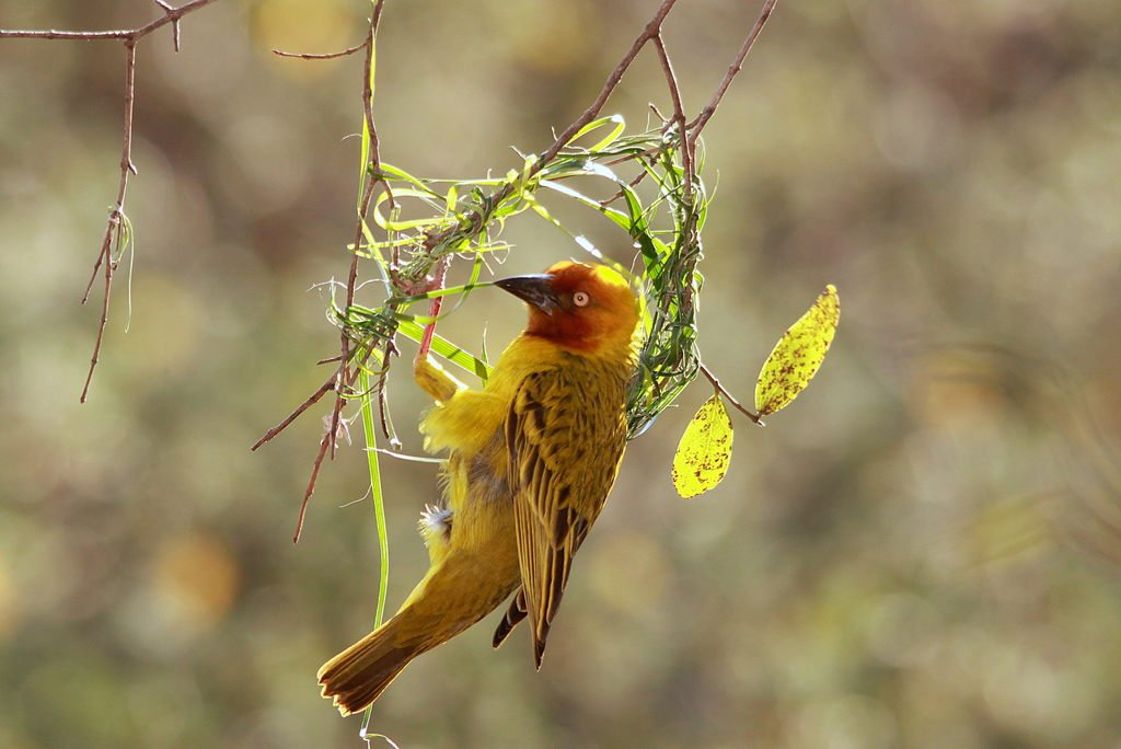 Cape Weaver, Ploceus capensis at Walter Sisulu National Botanical Garden - caught in the light